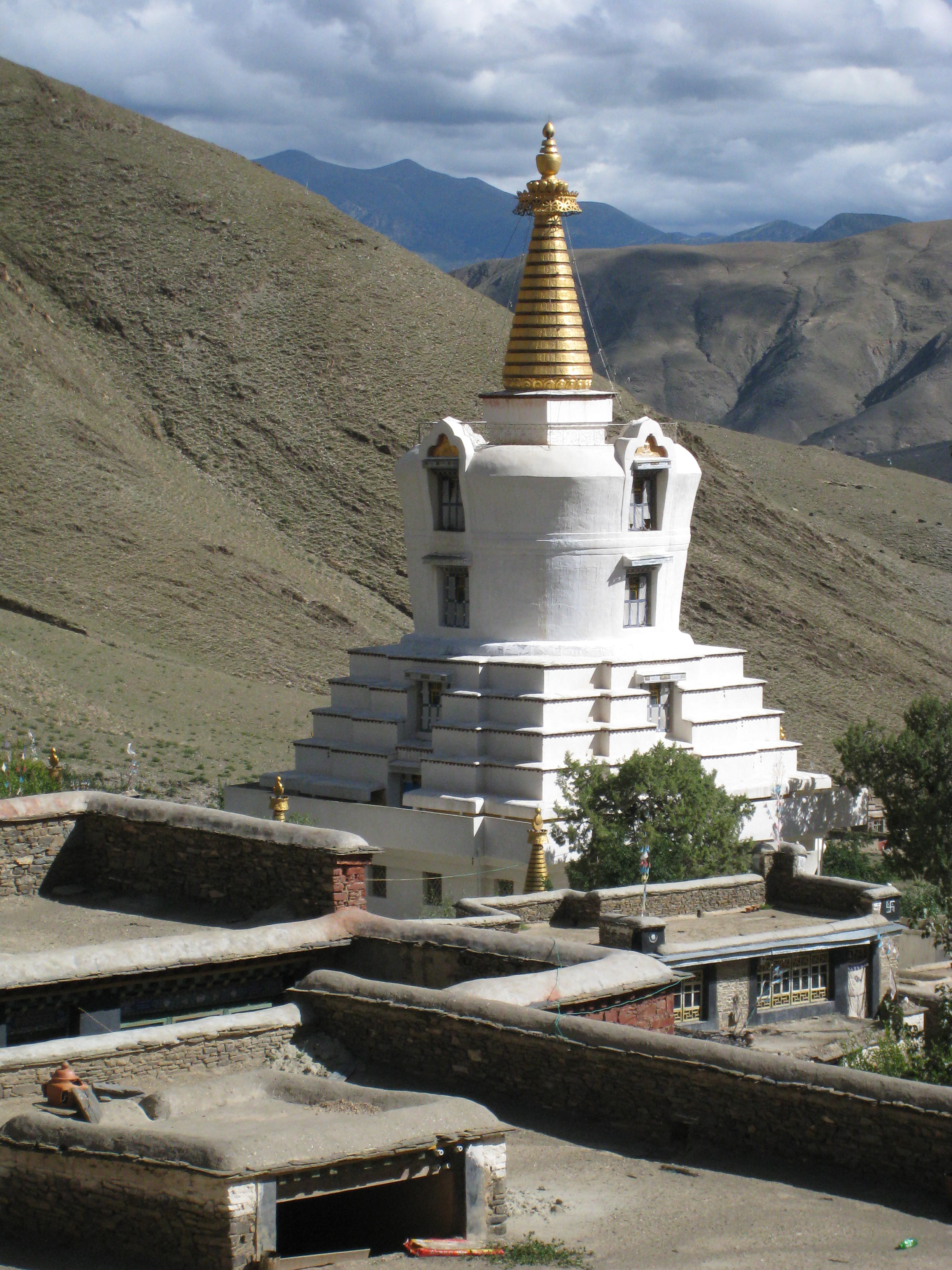 The stupa at the Mindroling Monastery in Tibet.